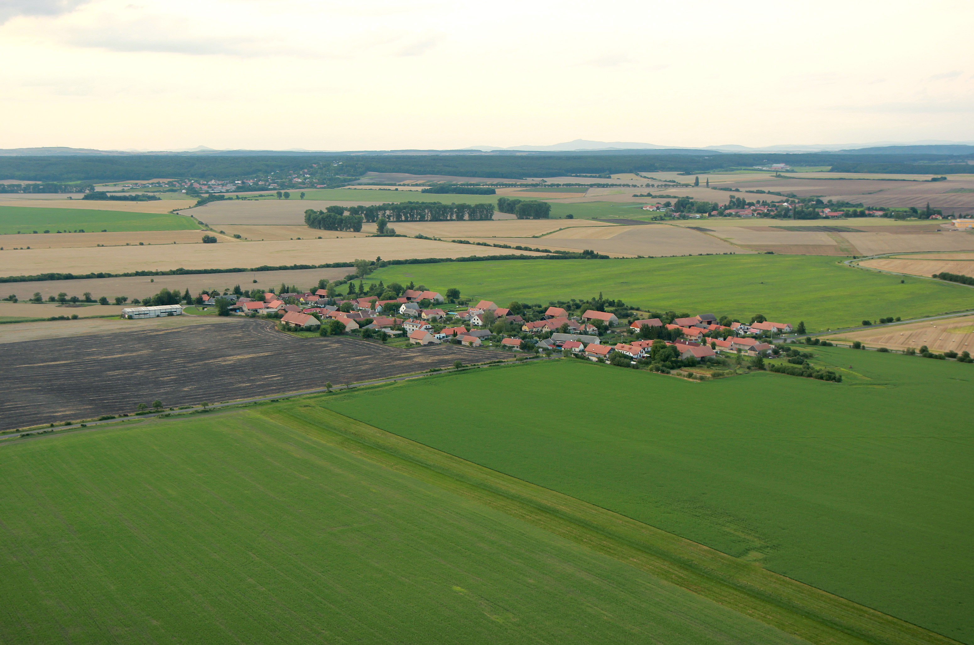 Aerial view of Mečíř, part of Křinec village, Czech Republic